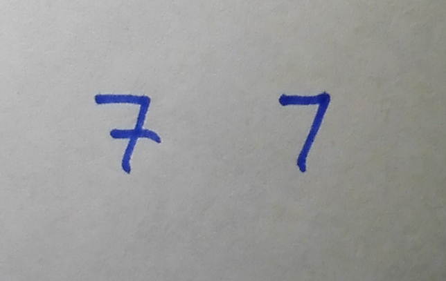 Two versions of a handwritten cipher seven